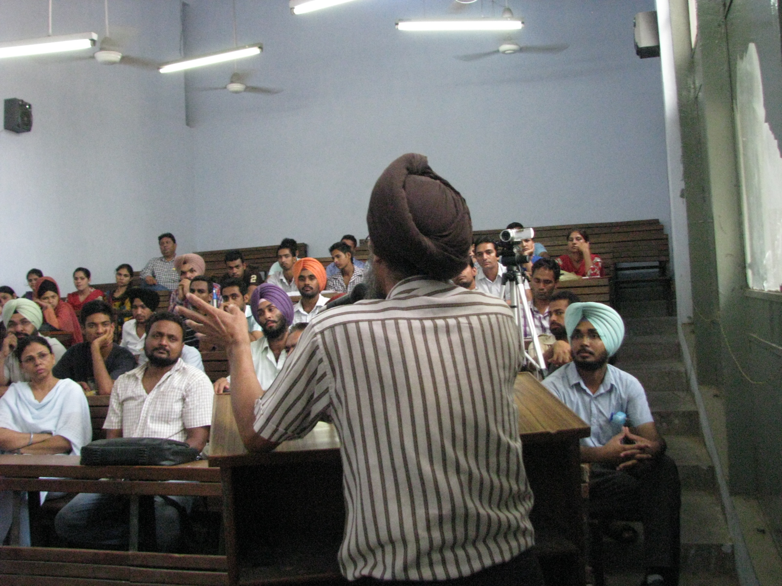 Punjabi Wikipedia Workshop, 16Aug2012, Patiala.